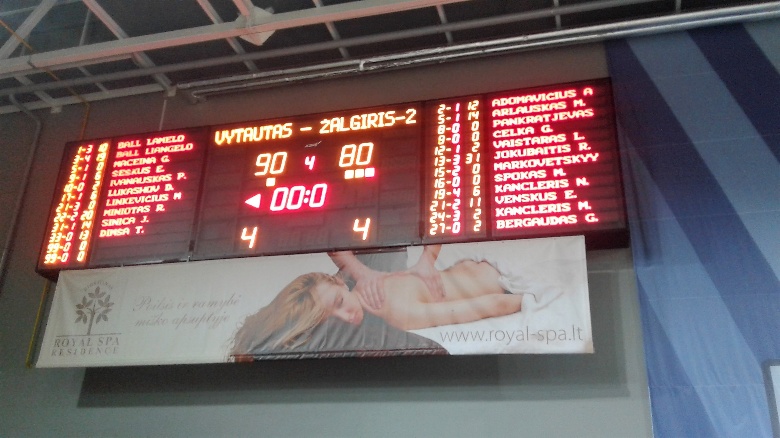 First PRO game of brothers LiAngelo ir LaMelo Balls in Lithuania, Prienai-Birštonas VYTAUTAS